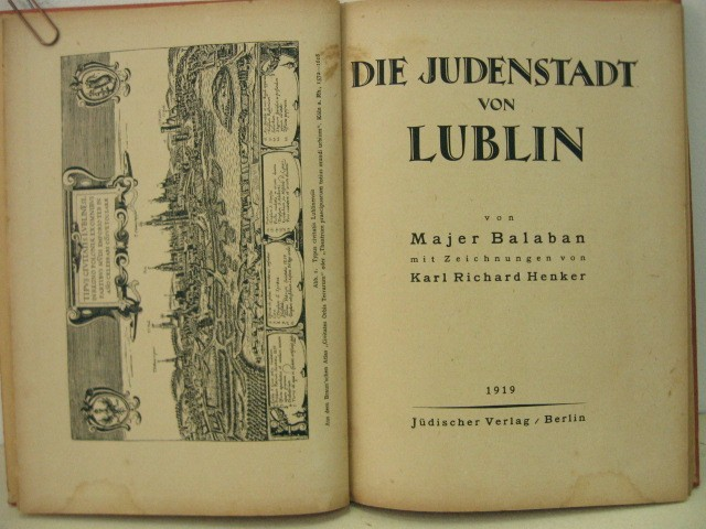 Book of Meir Balaban on the Jews of Lublin (punlished in 1919)